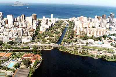 View of the "Jardim de Alah" channel, that connects "Lagoa Rodrigo de Freitas" to the Atlantic Ocean